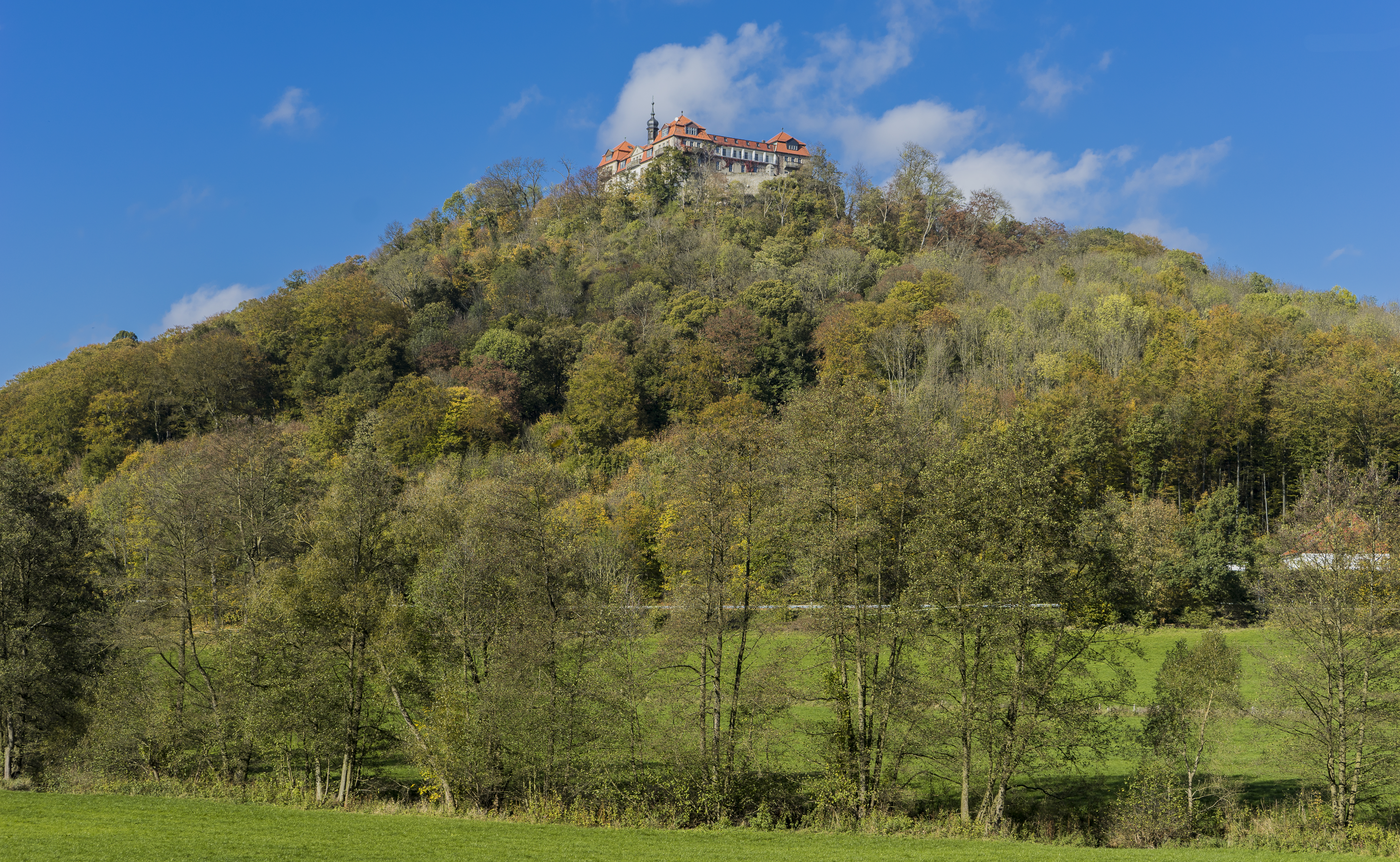 Castle Bieberstein (Beaverstone), Hofbieber/Langenbieber now a boarding school.